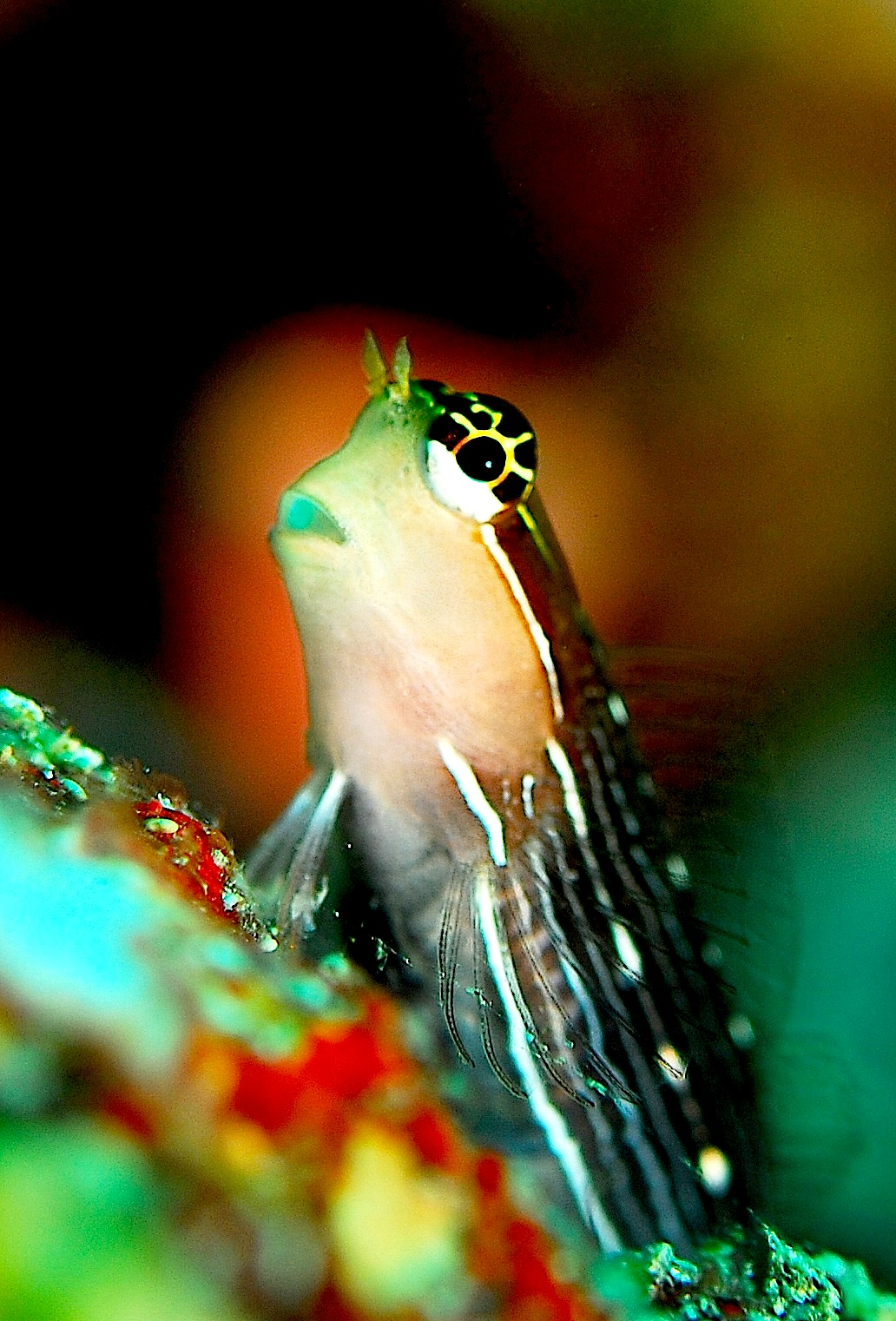 Ecsenius pictus'Oh~Jenny?' On Black This is a white-lined combtooth Blenny. up to 5cm. Very small benthic species, usually found in deeper than others.Oh~Jenny?